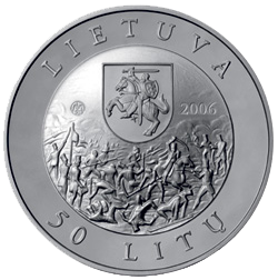 50 litas coin dedicated to the Uprising of 1831 and the 200th Birth Anniversary of its heroine Emilija Pliateryte Silver Ag 925 Quality proof Diameter 38.61 mm Weight 28.28 g The words on the edge of the coin: 1831 SUKILIMAS (1831 UPRISING) Designed by Giedrius Paulauskis Mintage 2,500 pcs Issue 2006 The coin was minted at the UAB Lithuanian Mint.